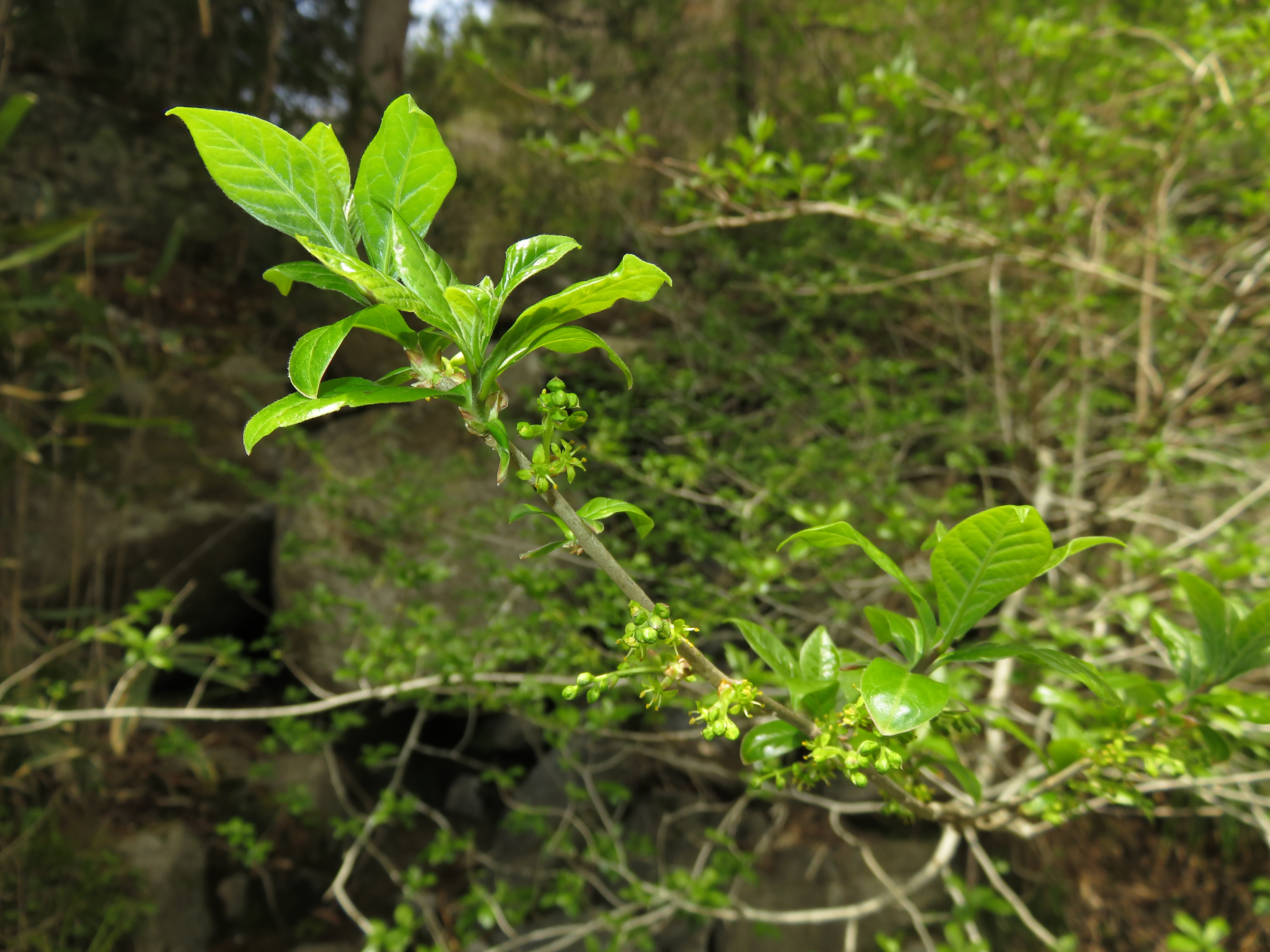 Orixa japonica, Hama-dori area, Fukushima pref., Japan